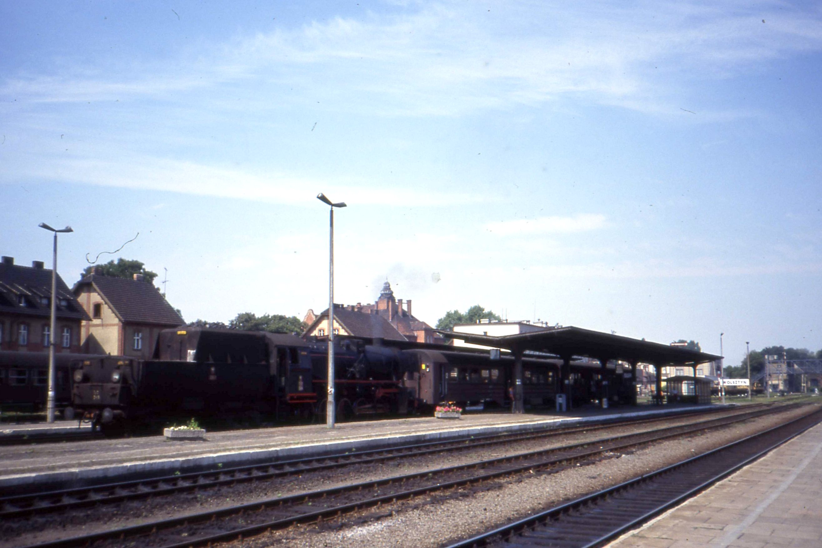 Panorama of Wolsztyn station with Ty2 249 waiting in the platform with a mid-day 2 carriage train to Nowa Sol.